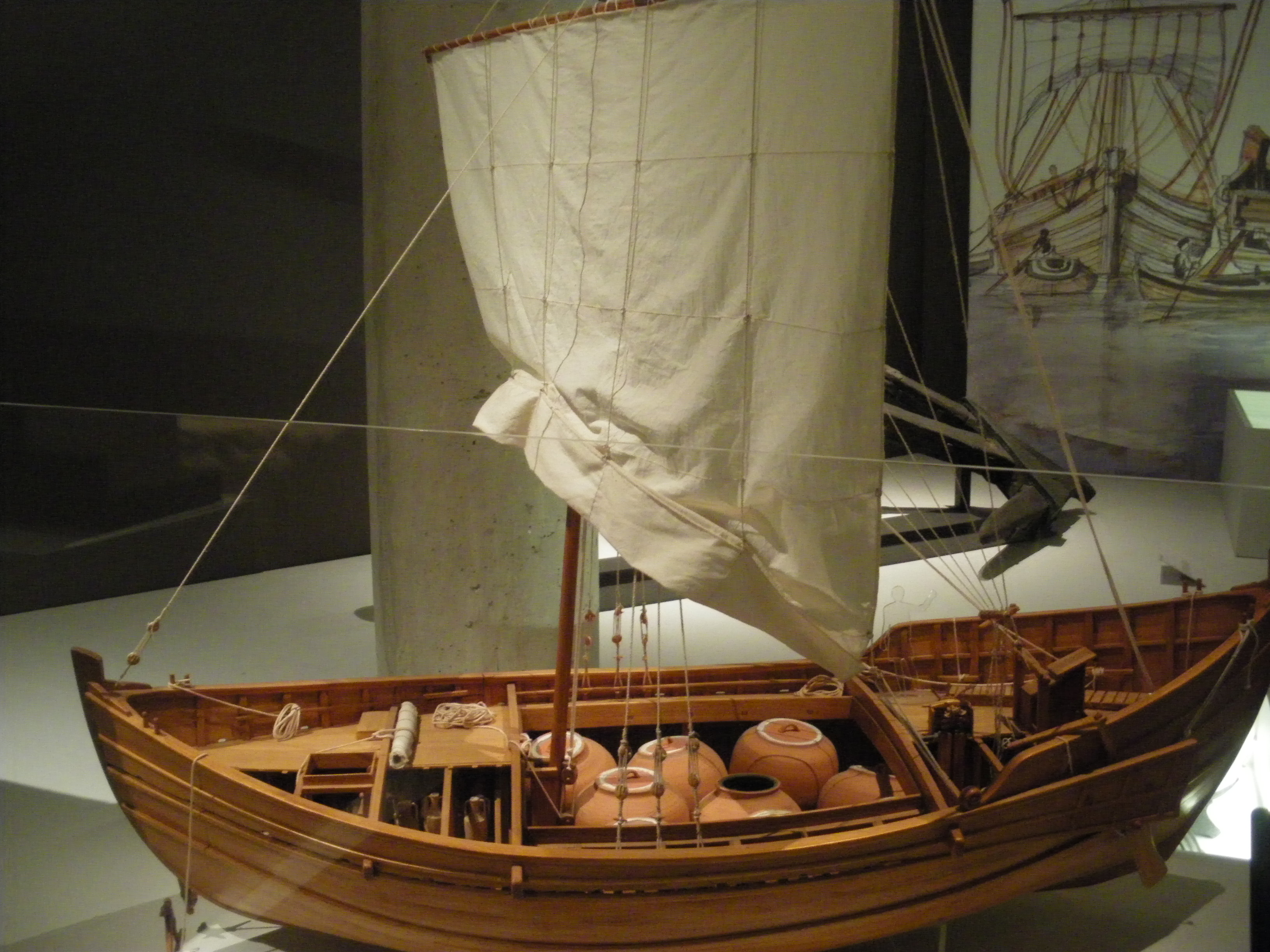 model reconstituting a Roman boat of coastal traffic on the Rhone (oraria navis), in the museum of Arles